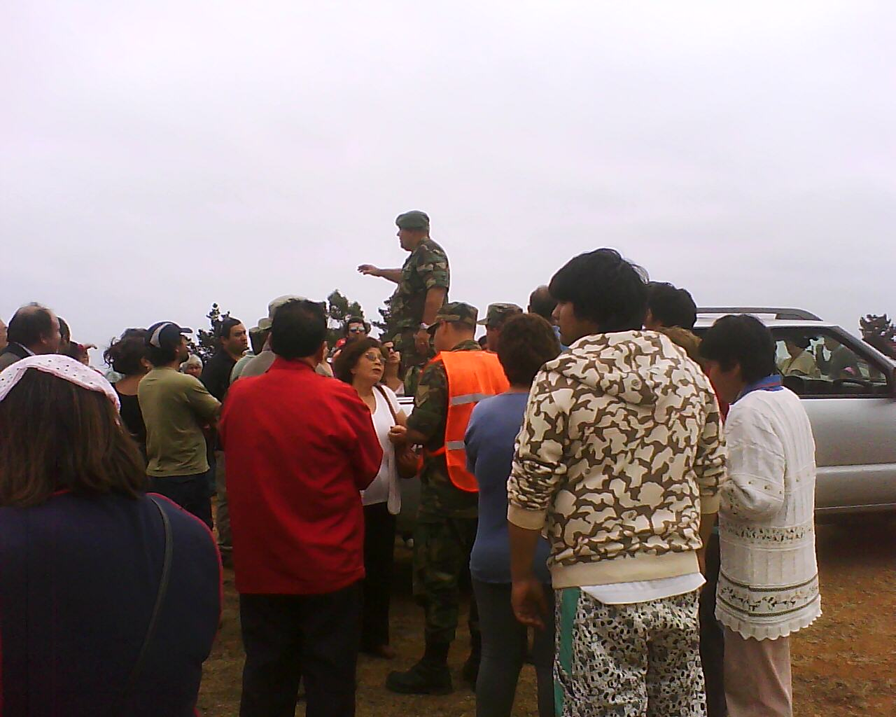 Militaries in the La Cruz Hill, of Pichilemu, after the 2010 Pichilemu earthquake.